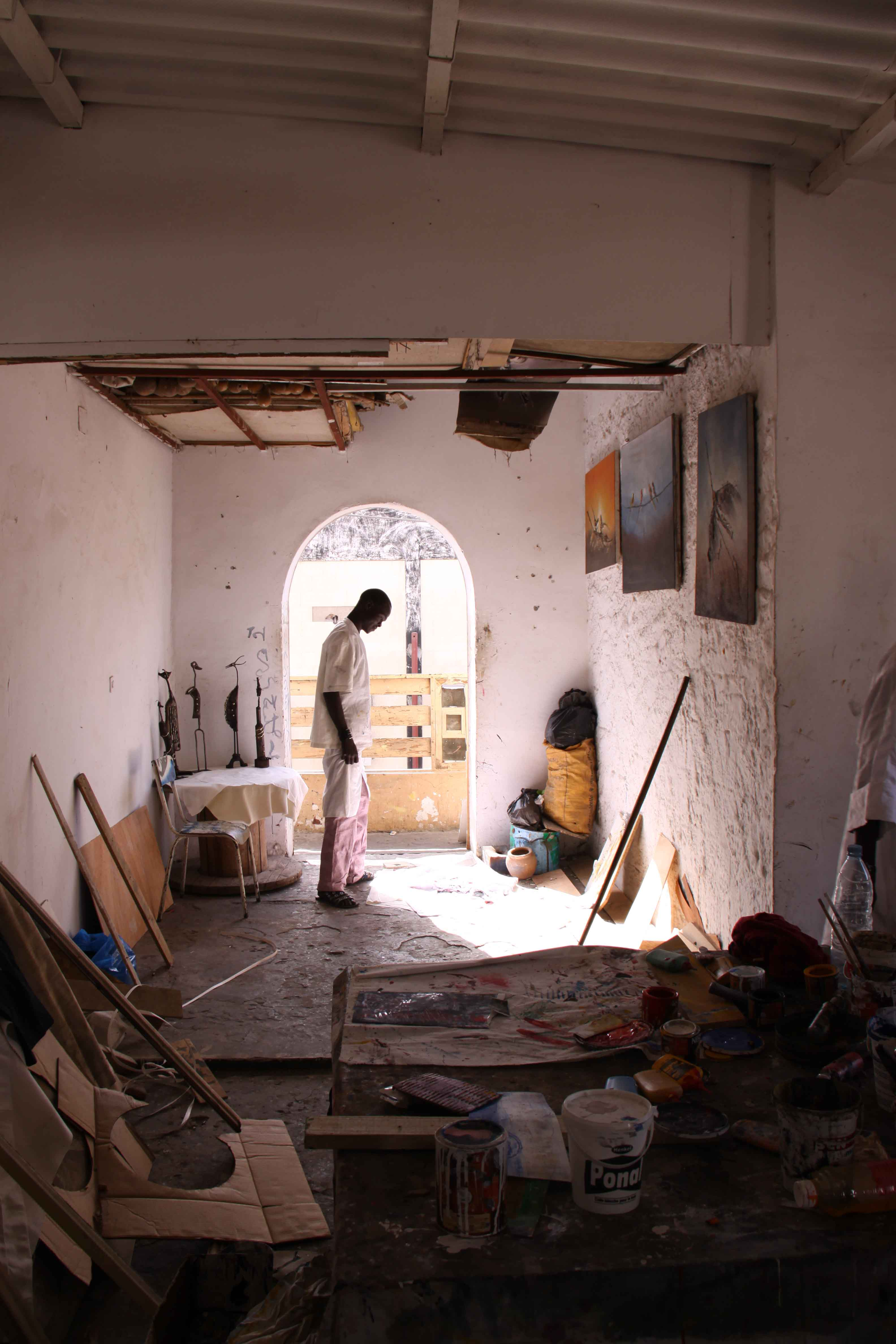 Atelier "Espace Medina". This file contributes to Share Your Knowledge.